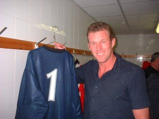 Photo of Dave Beasant taken at Meadow Lane in 2003. Taken with permission from